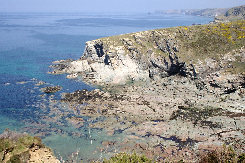 Barrett's Zawn, near to Pendoggett, Cornwall, Great Britain. A wide rocky inlet, unlike the narrow canyon 'zawns' of West Cornwall.